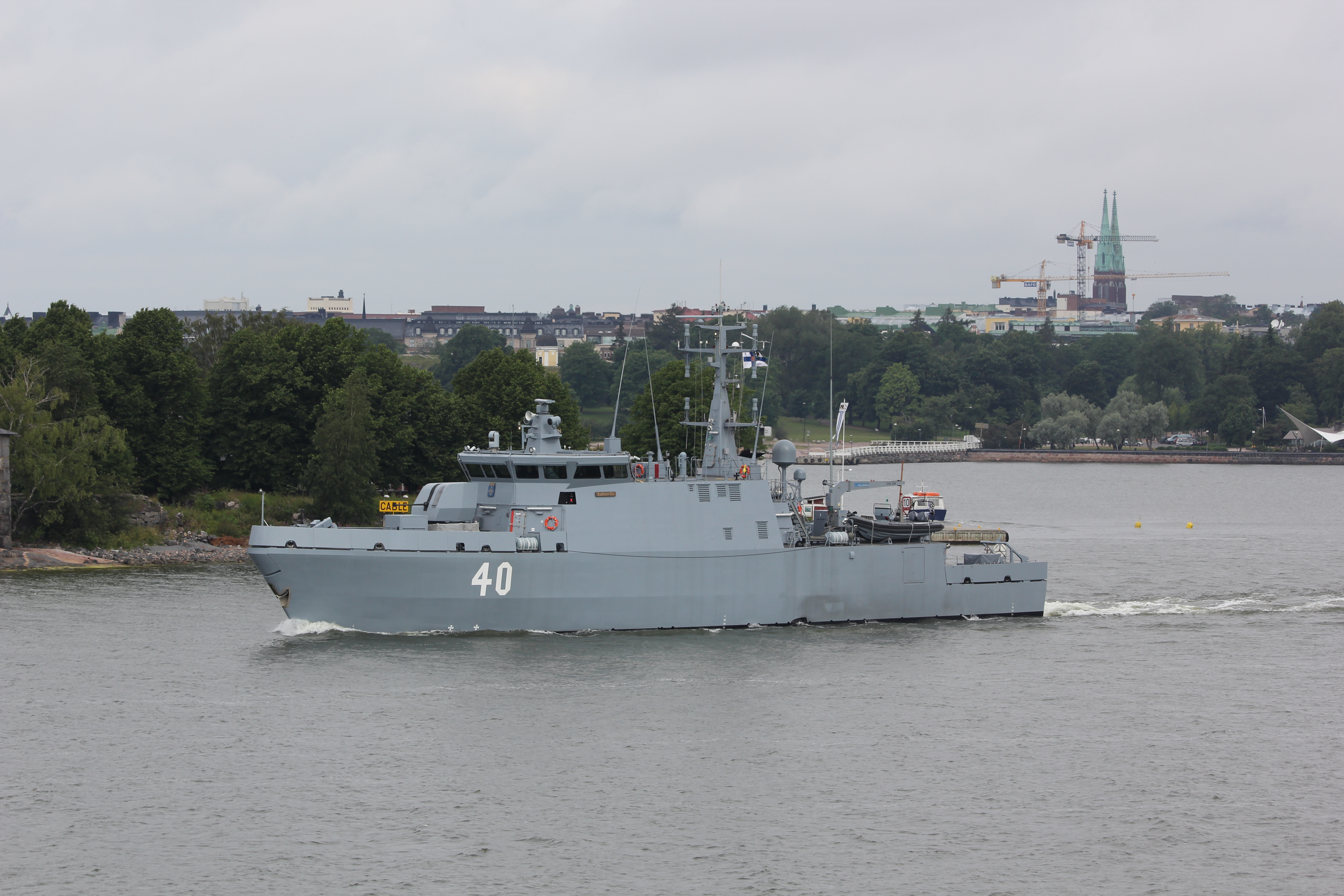 Finnish coastal mine hunter Katanpää (40) in Särkänsalmi strait on the morning after the Finnish navy 2012 anniversary parade.